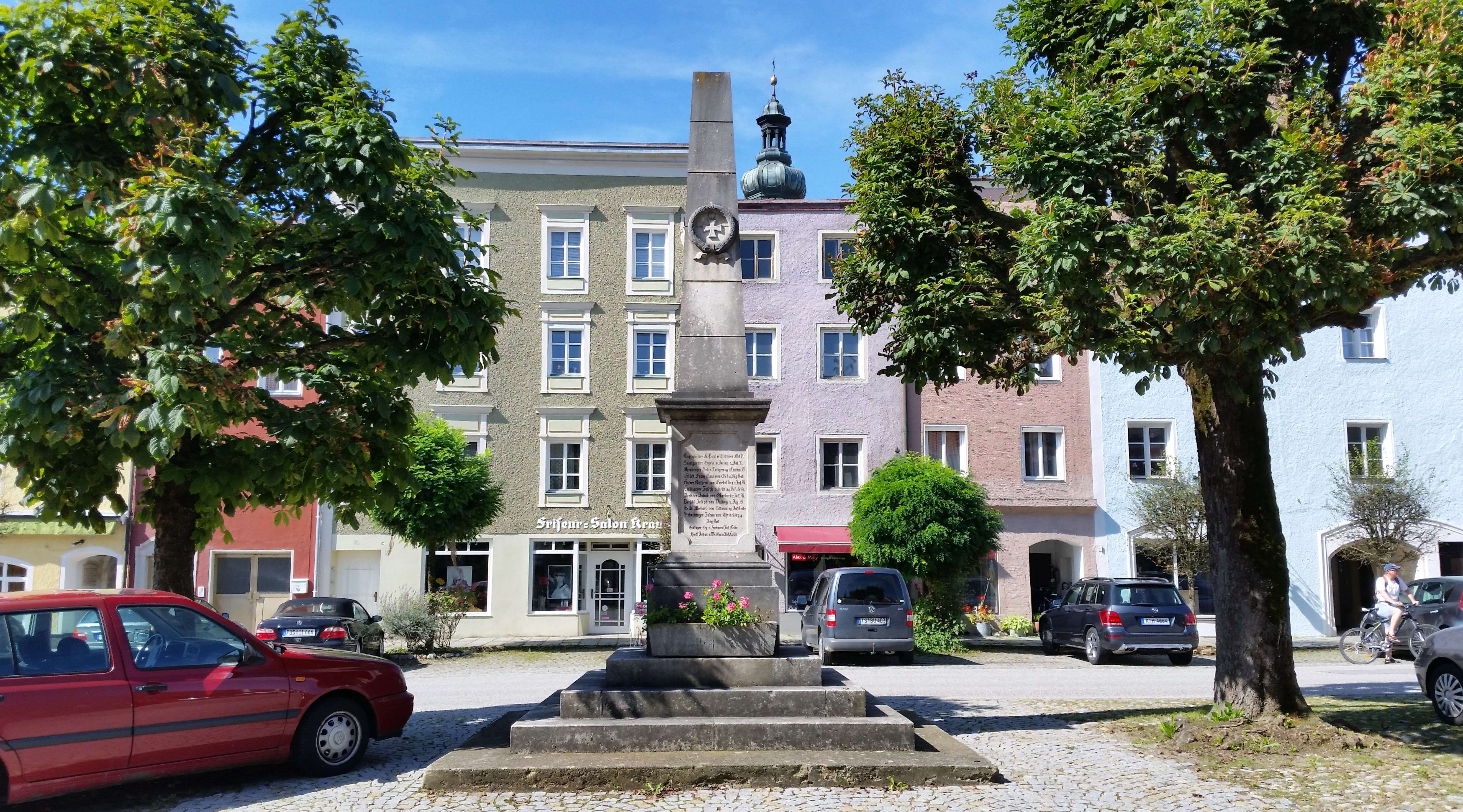 This is a photograph of an architectural monument.